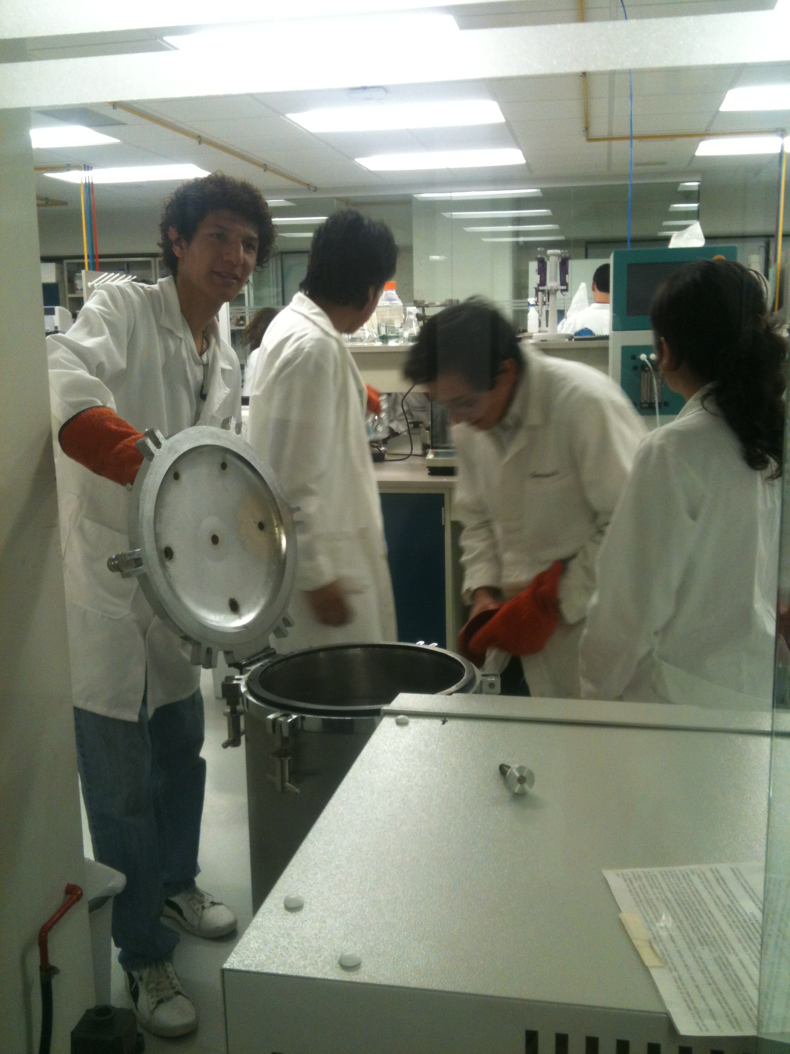 Estudiante de biotecnología del ITESM CCM esterilizando material en un autoclave para siembra de E. coli por dilución serial.